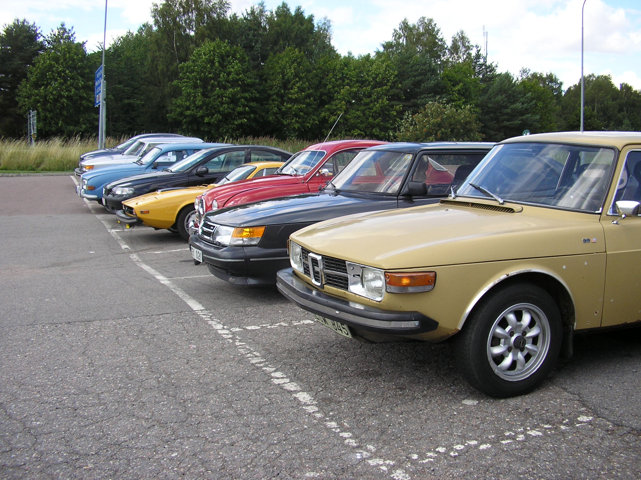 Parking in Mantorp on the way from Stockholm to Ljungbyhed for the International SAAB Club Meeting 2006. Several SAABs and a missplaced Volvo.